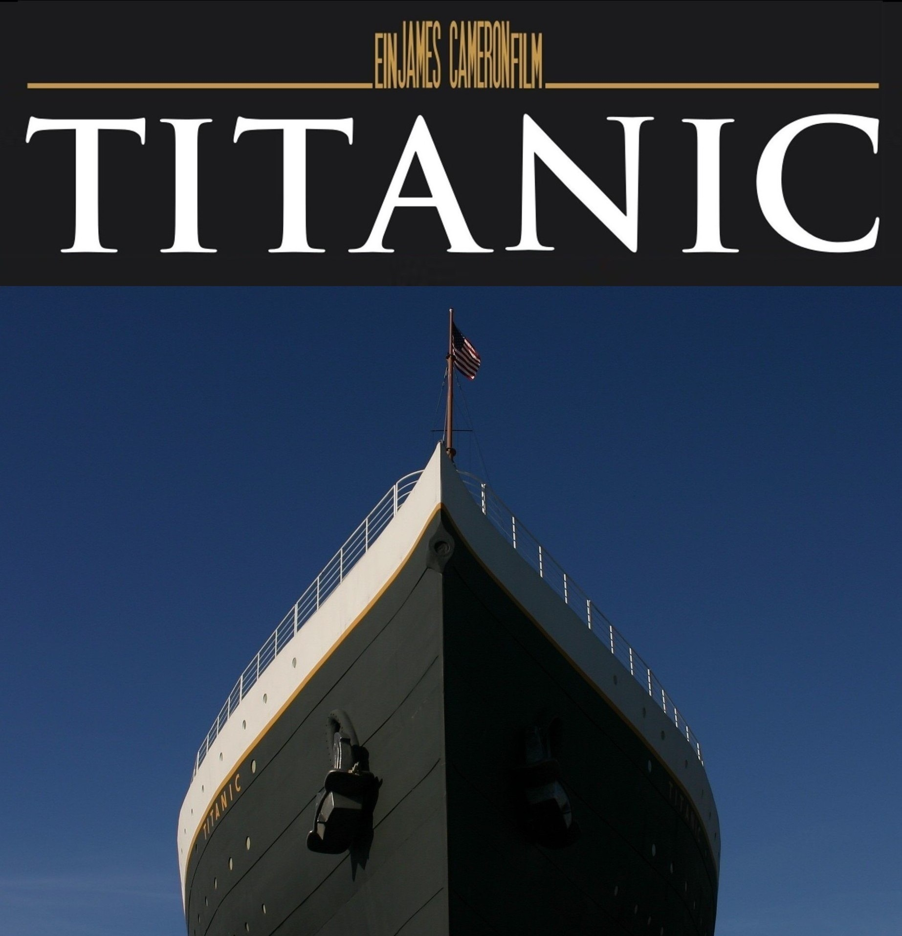 Titanic Poster